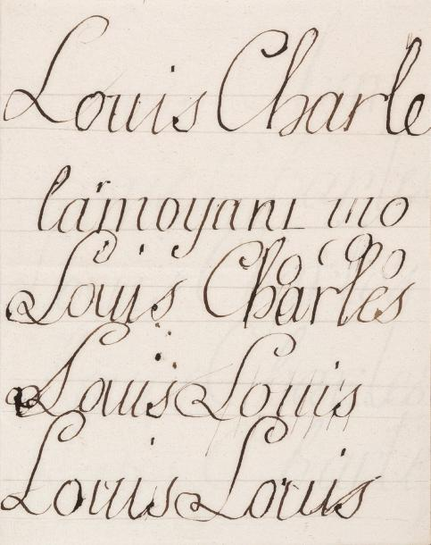 An example of calligraphy by Louis XVII, a pupil of Sourdon Dumesnil de Saint-Cyr.